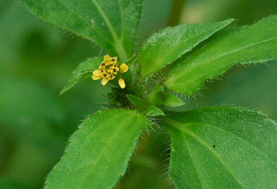 Synedrella nodiflora, close up. Darmaga, Bogor, West Java.